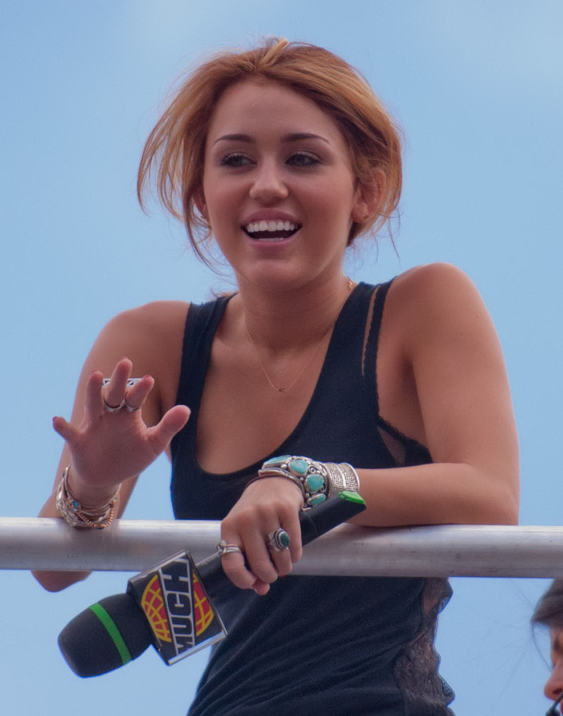 Miley Cyrus during a soundcheck prior to the 2010 Much Music Video Awards